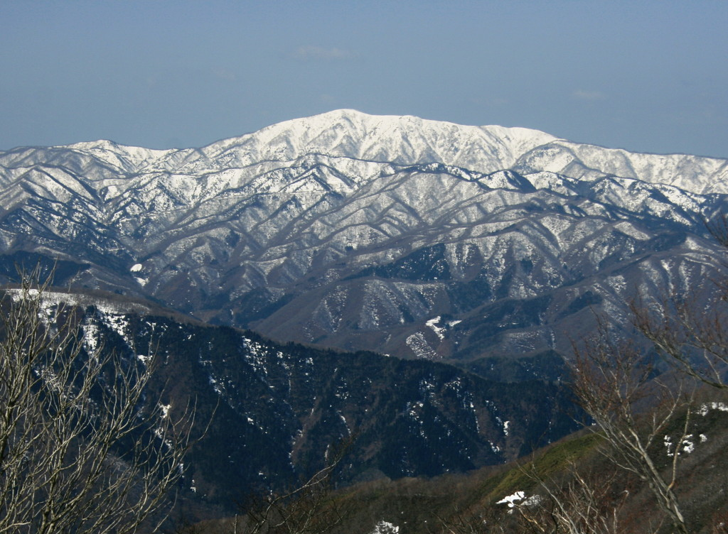 Mount Kanakuso seen from Mount Ozugongen